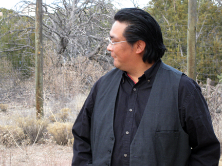 Ishkoten Dougi, Jicarilla Apache-Navajo sculptor, painter, and printmaker